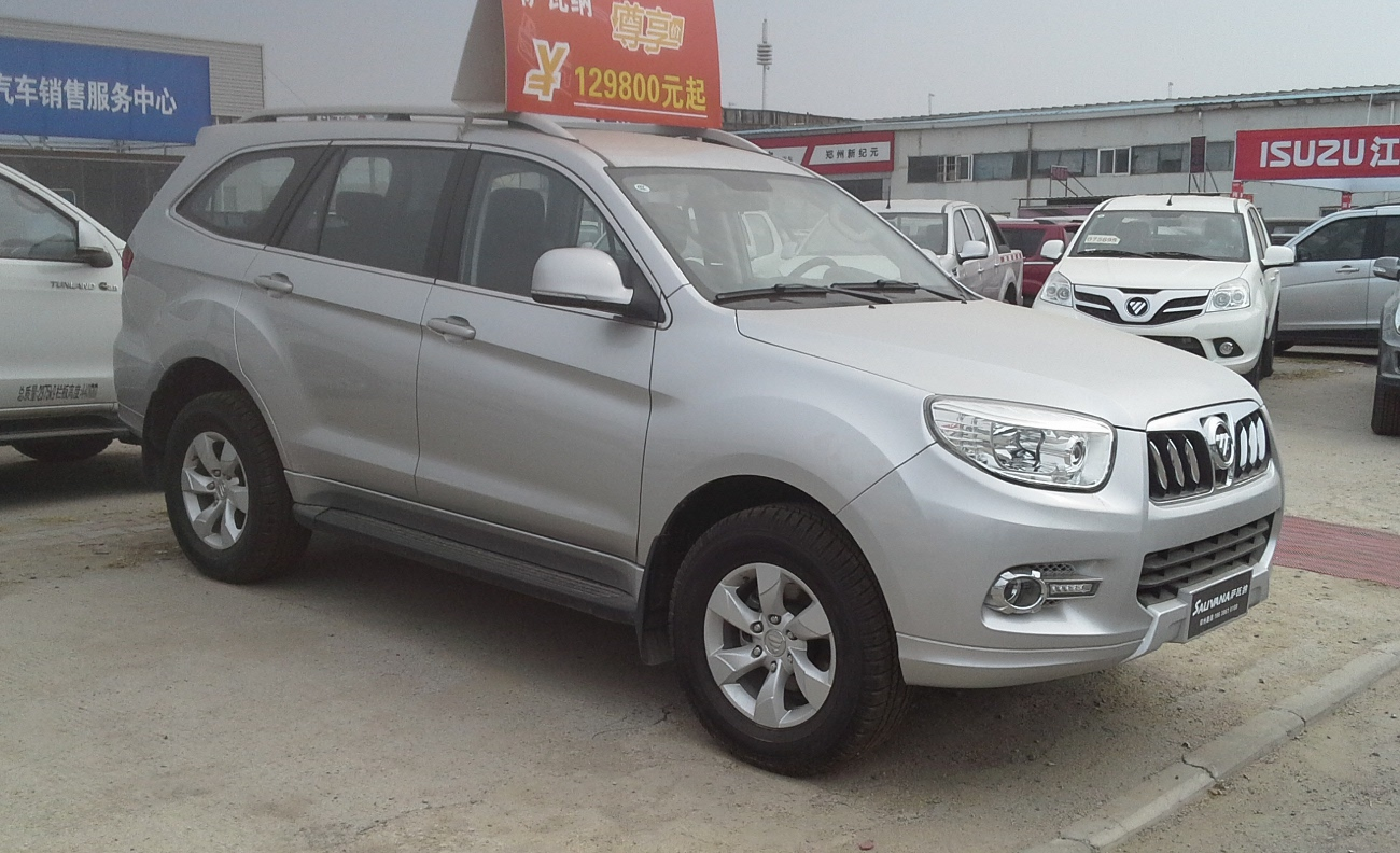 Foton Sauvana photographed in Zhengzhou, Henan province, China.